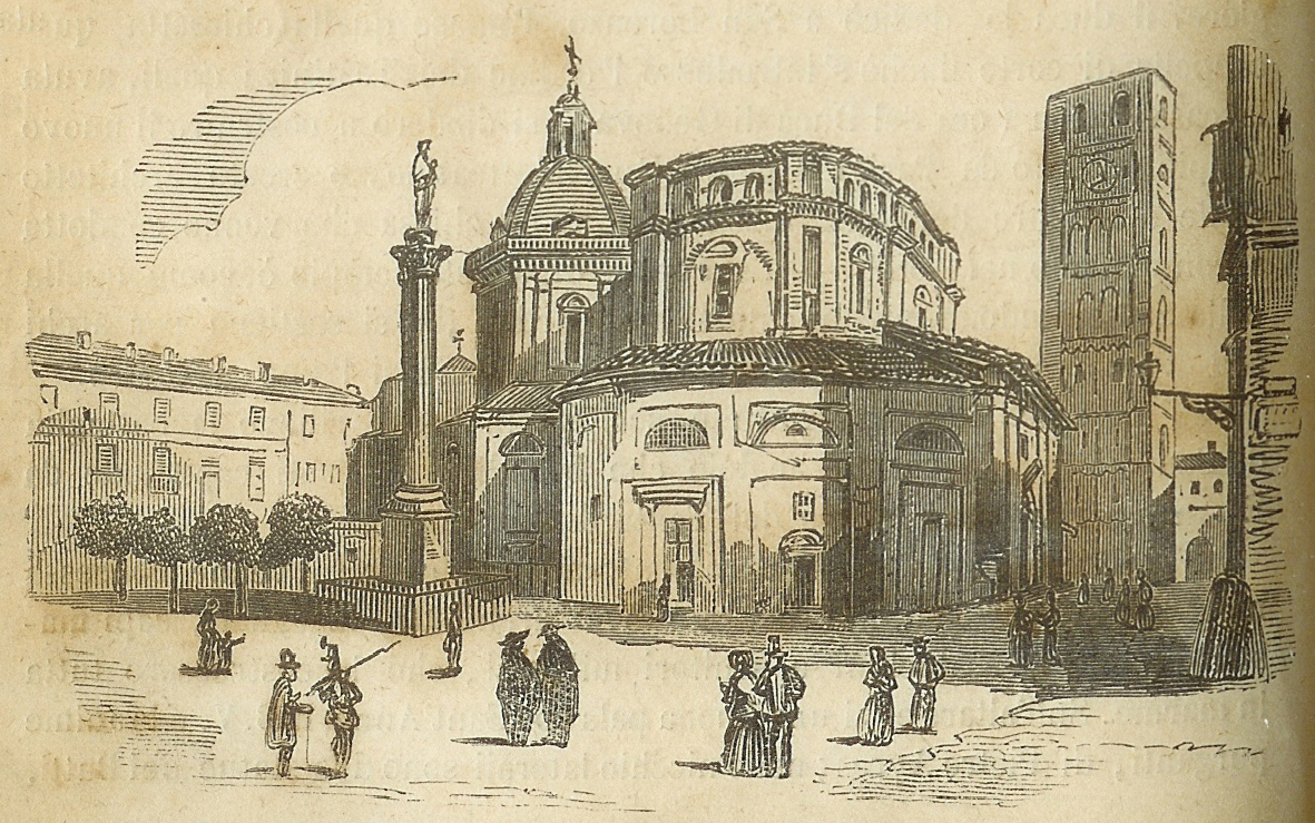 Engraving depicting the shrine of "La Consolata" in Turin.